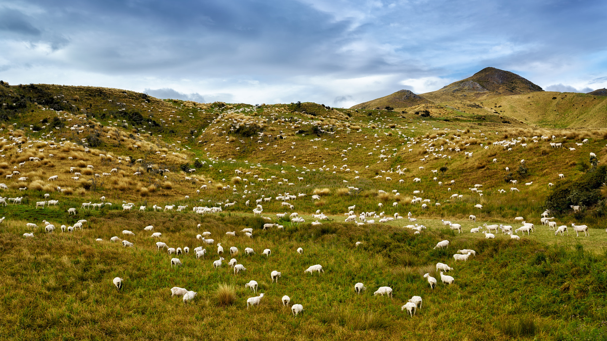 500px provided description: New Zealand has six sheep for every person - i.e. 30M sheep in total! [#new zealand ,#sheep ,#south island ,#farming ,#otago]